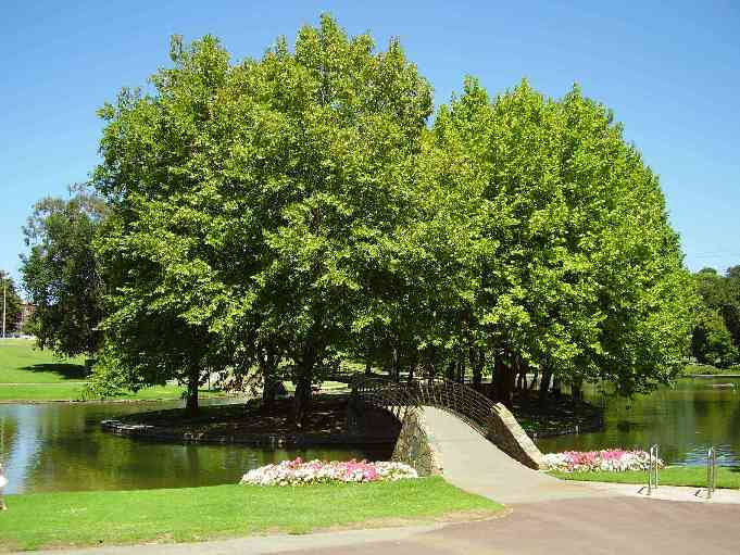 Rymill Park, off East Terrace Adelaide, South Australia